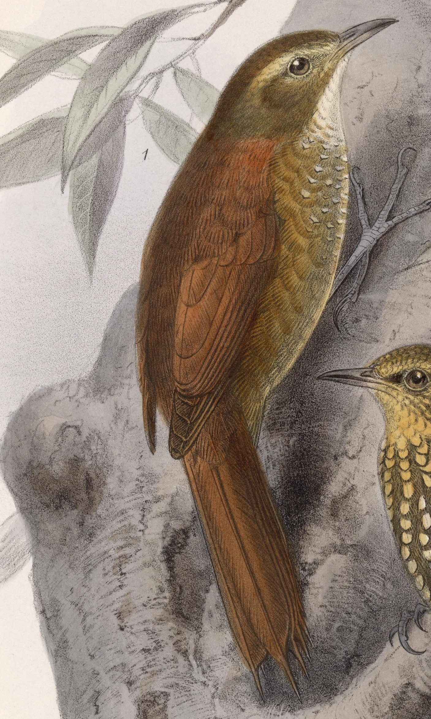 « Margarornis rubiginosus » = Margarornis rubiginosus (Ruddy Treerunner)